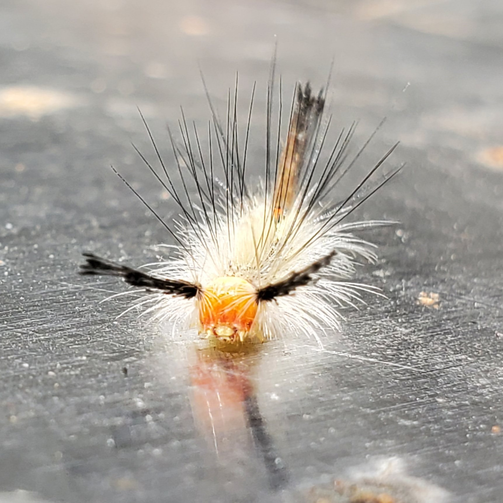 Orgyia leucostigma in Pupae stage